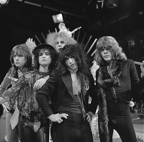 New York Dolls in AVRO's TopPop (Dutch television show) in 1973